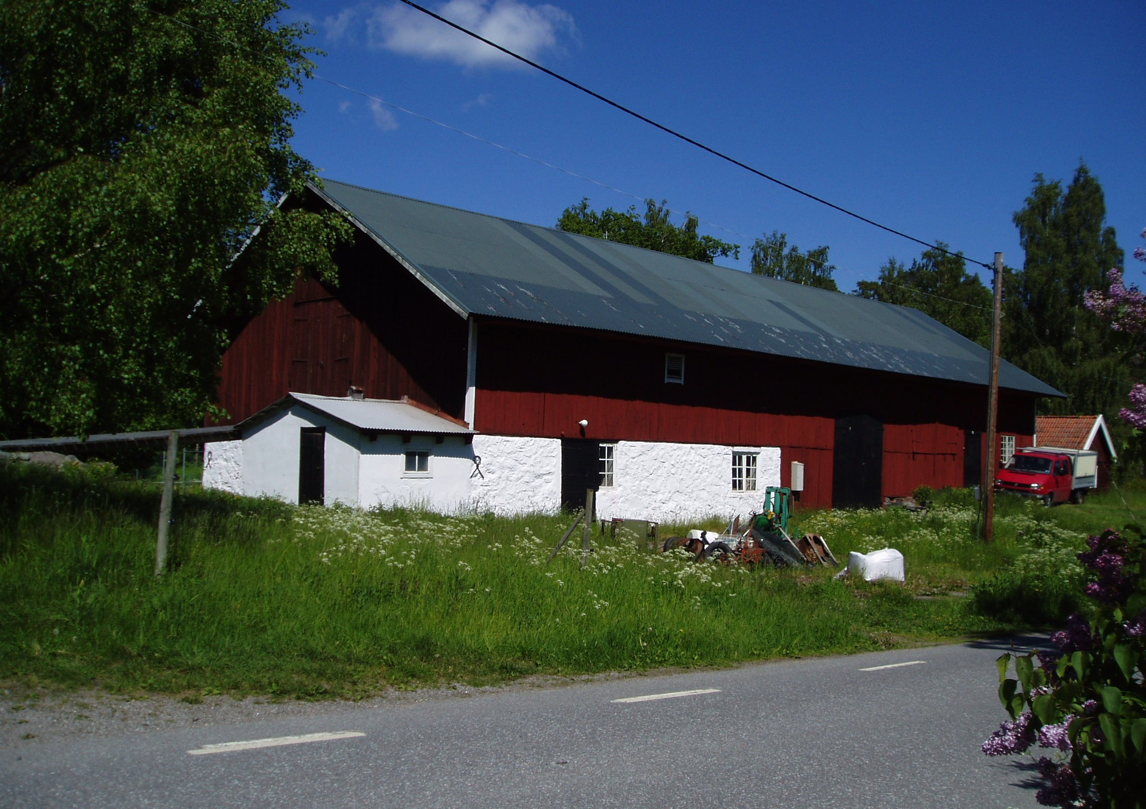 Väster Skägga mansion, Värmdö Municipality, Sweden, warehouse